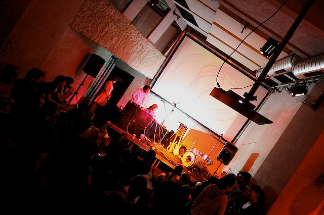 Ausland, a club in Berlin